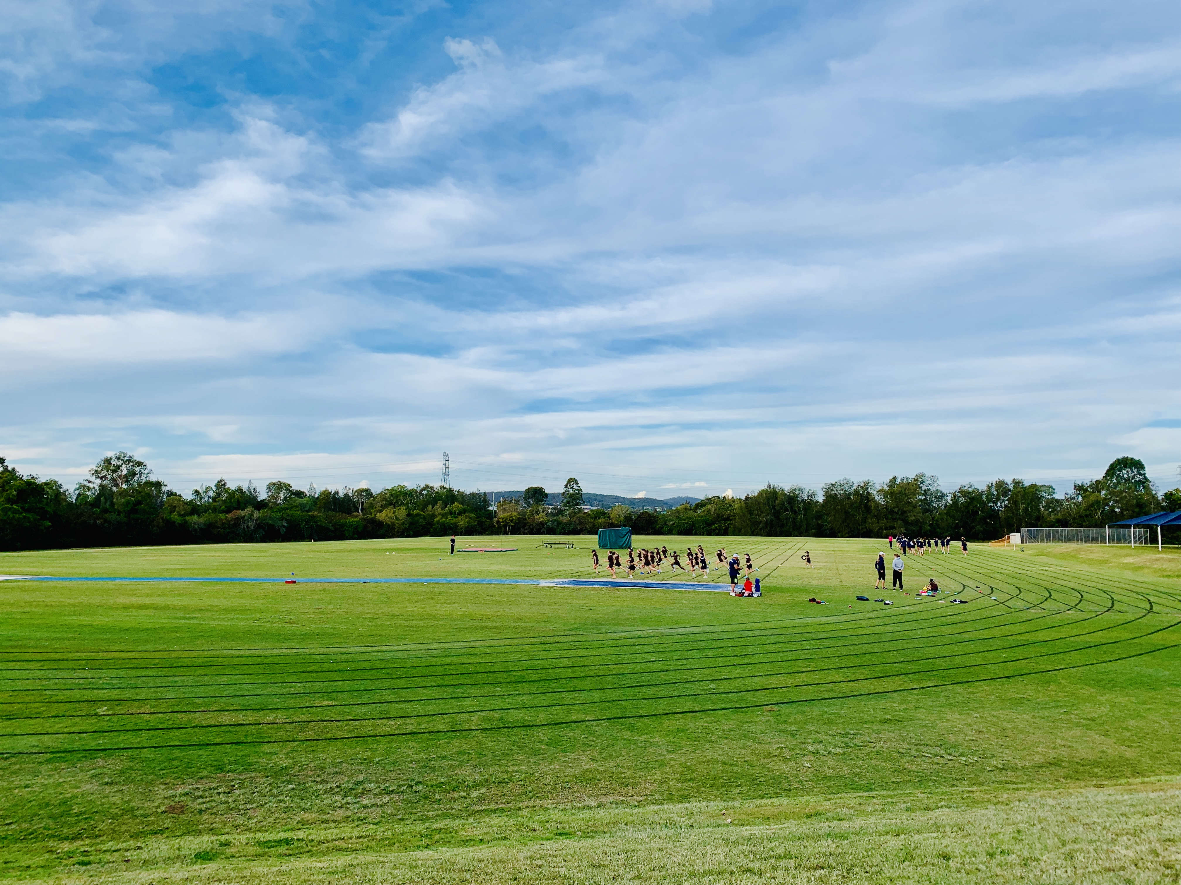 St Aidan's Anglican Girls' School Sportsfield, Corinda, Queensland